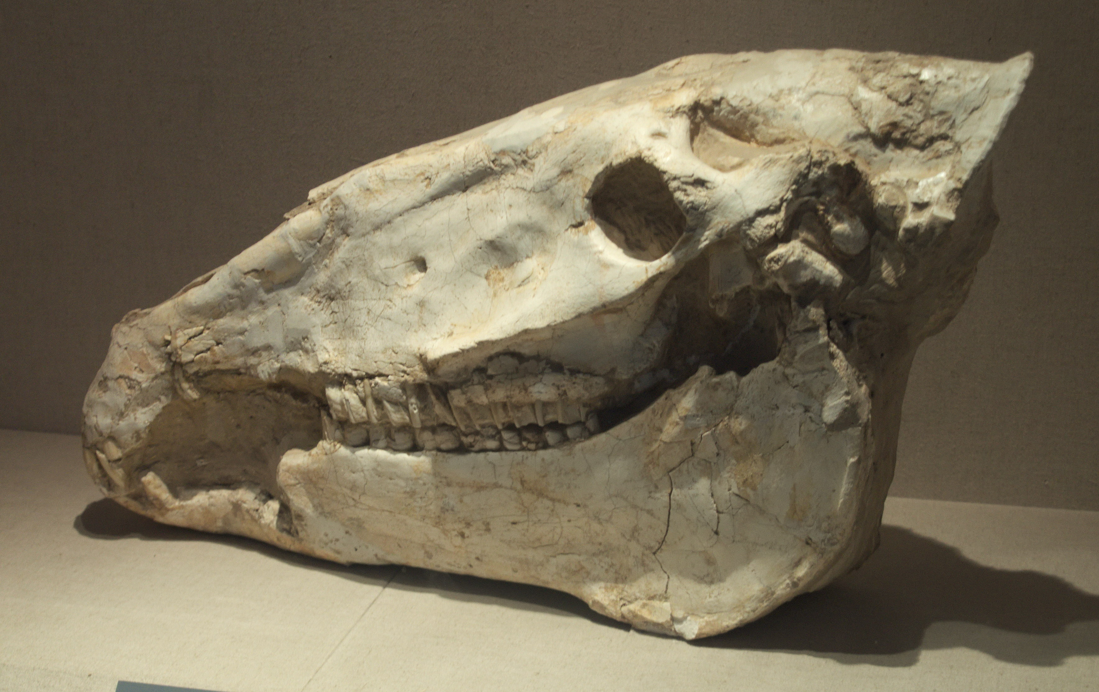 Skull of an equus eisenmannae (埃氏马/艾氏马) from begining pleistocene (早更新世) found in Gansu province. Displayed at Inner Mongolia Museum, Hohhot, People Republic of China.